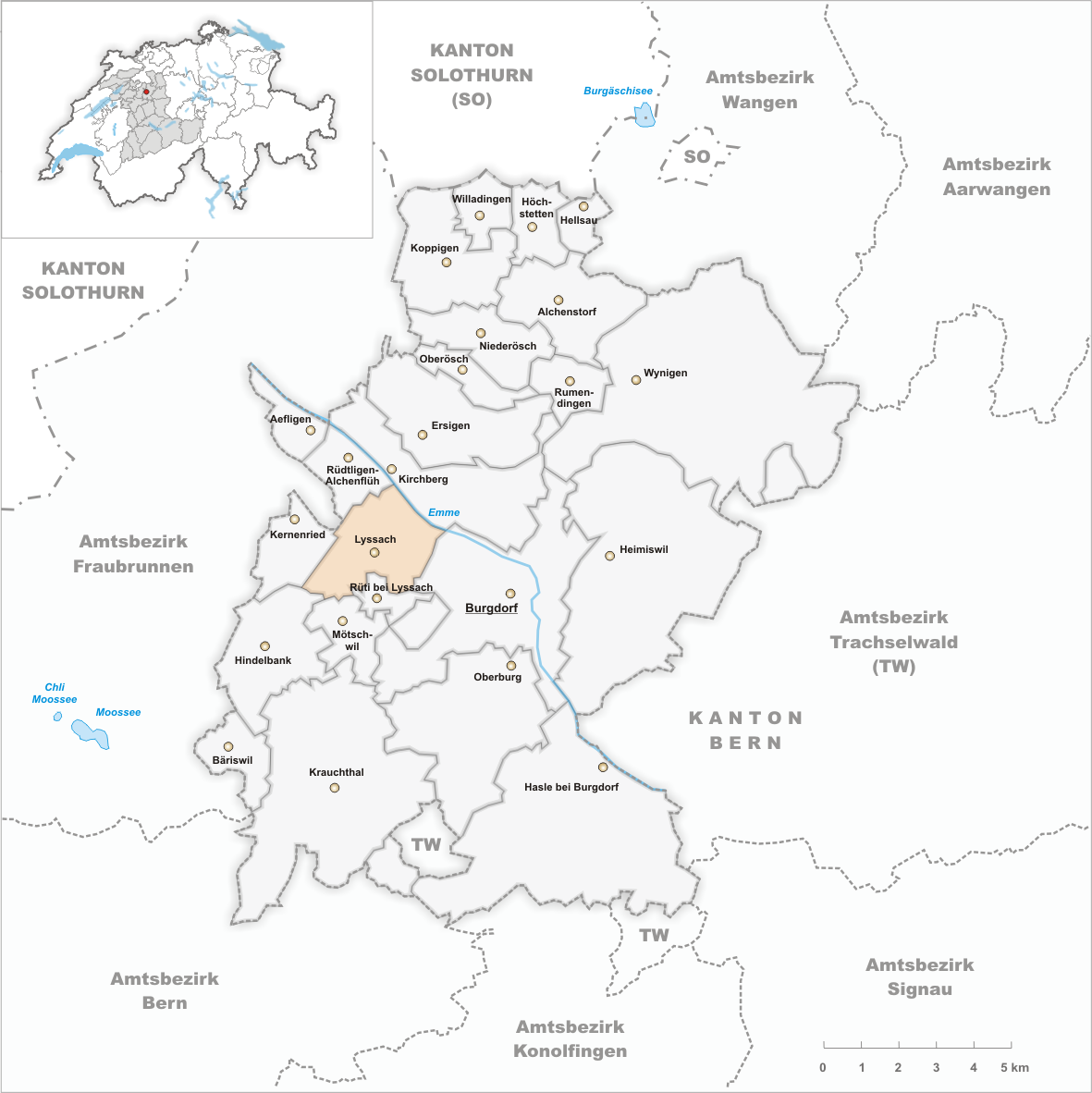 Municipality Lyssach